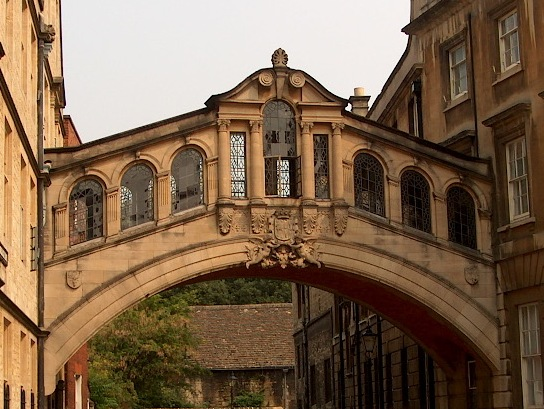 Bridge of Sighs, Hertford College, Oxford.